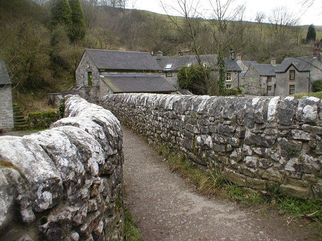 Viator Bridge, Milldale